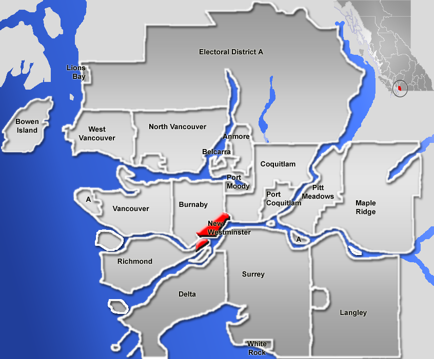 Location of New Westminster, Greater Vancouver Area, British Columbia